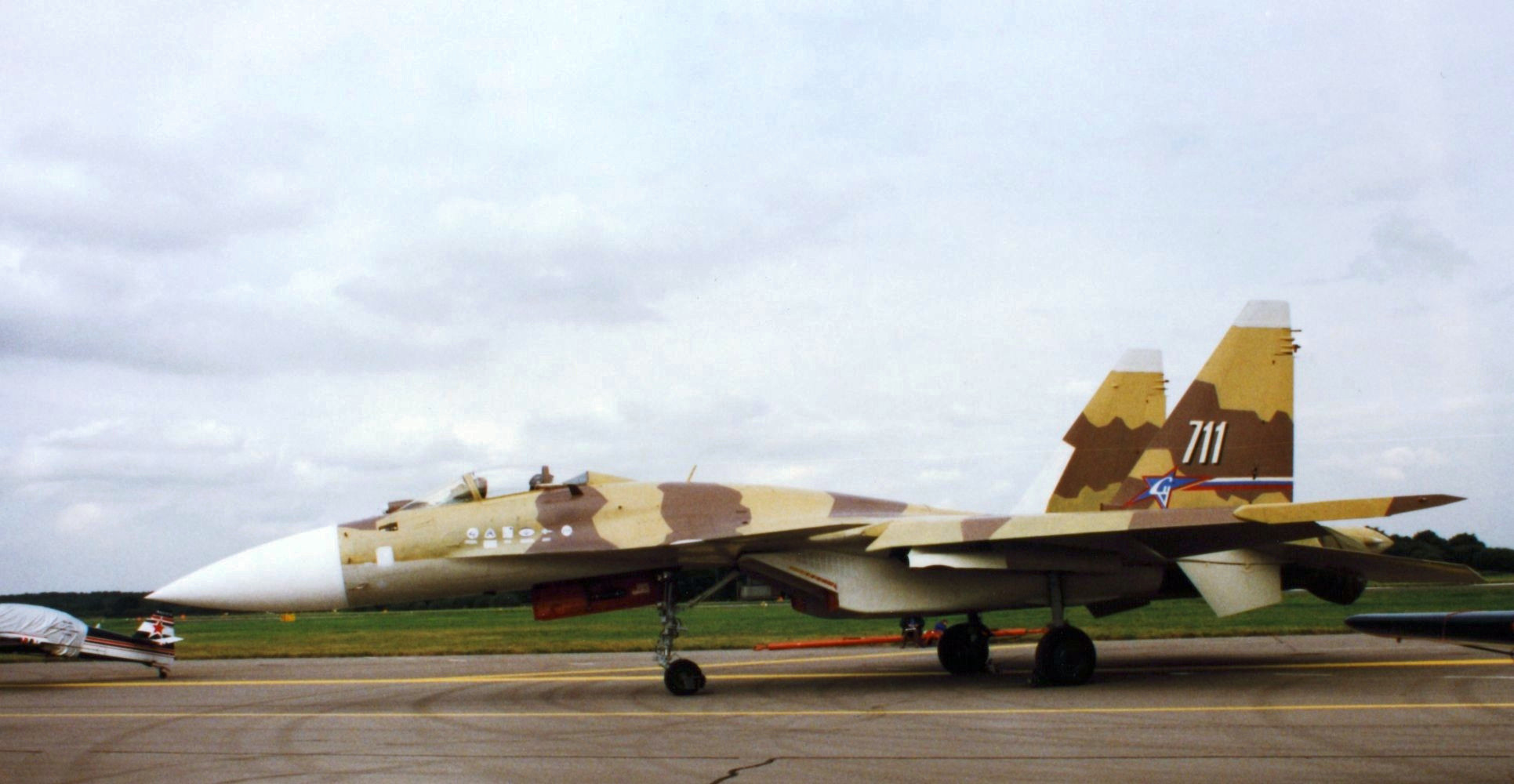 Catalog #: 15_002244 Title: Sukhoi Su-37 Date: 1996 ADDITIONAL INFORMATION: Farnborough Collection: Charles M. Daniels Collection Photo Album Name: Soviet Aircraft Page #: 38 Tags: Soviet Aircraft, Charles Daniels, PUBLIC COMMONS.SOURCE INSTITUTION: San Diego Air and Space Museum Archive